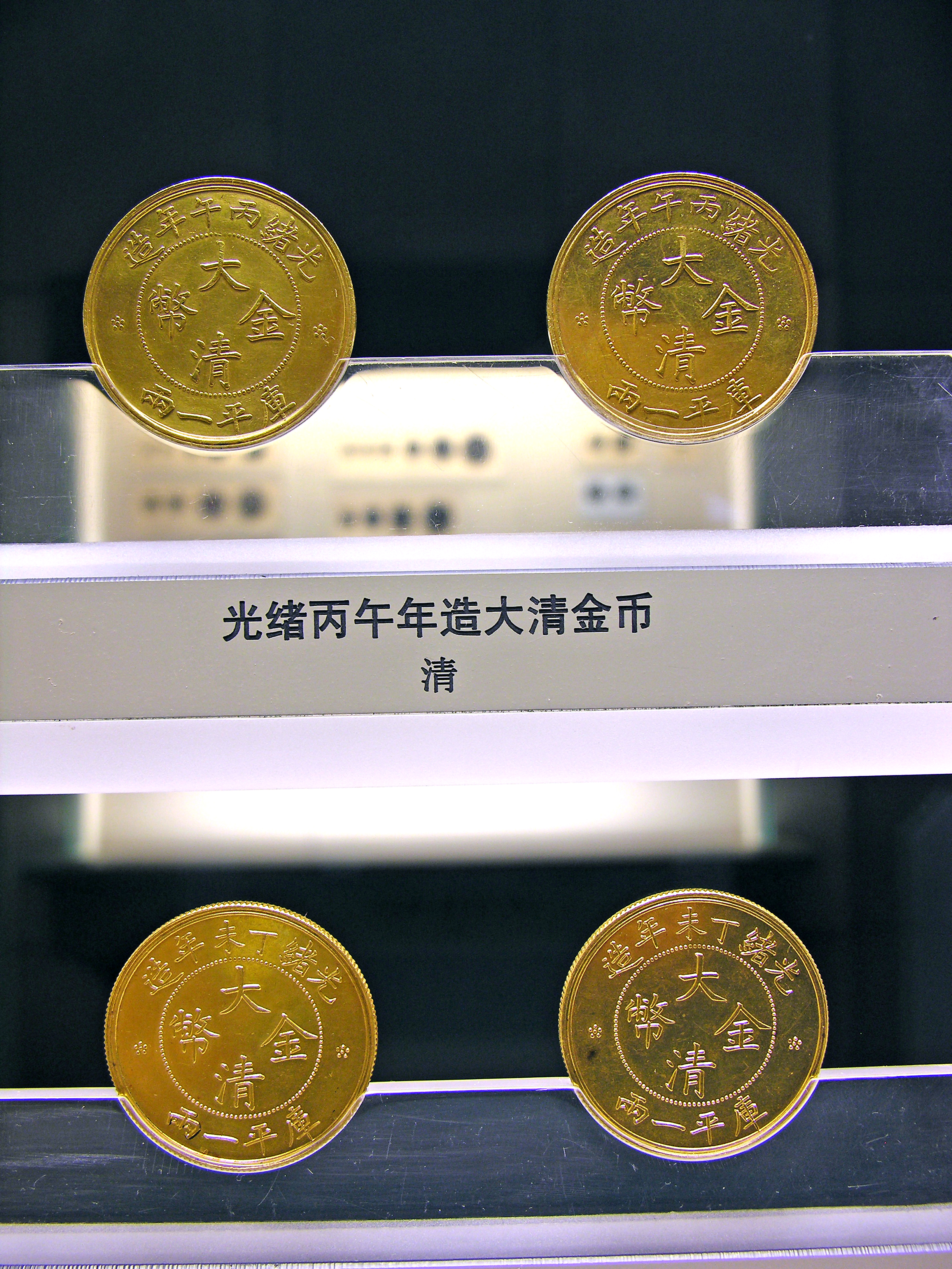 PLEASE, no multi invitations in your comments. DO NOT FEEL YOU HAVE TO COMMENT.Thanks. Money used at various times in China.